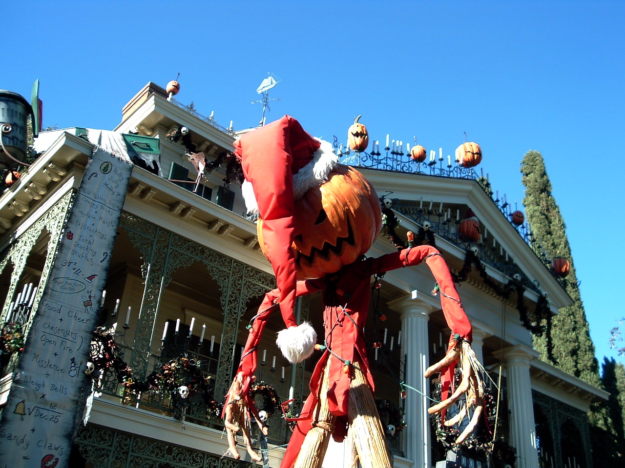 The Pumpkin King Scarecrow on the grounds outside the Haunted Mansion Holiday